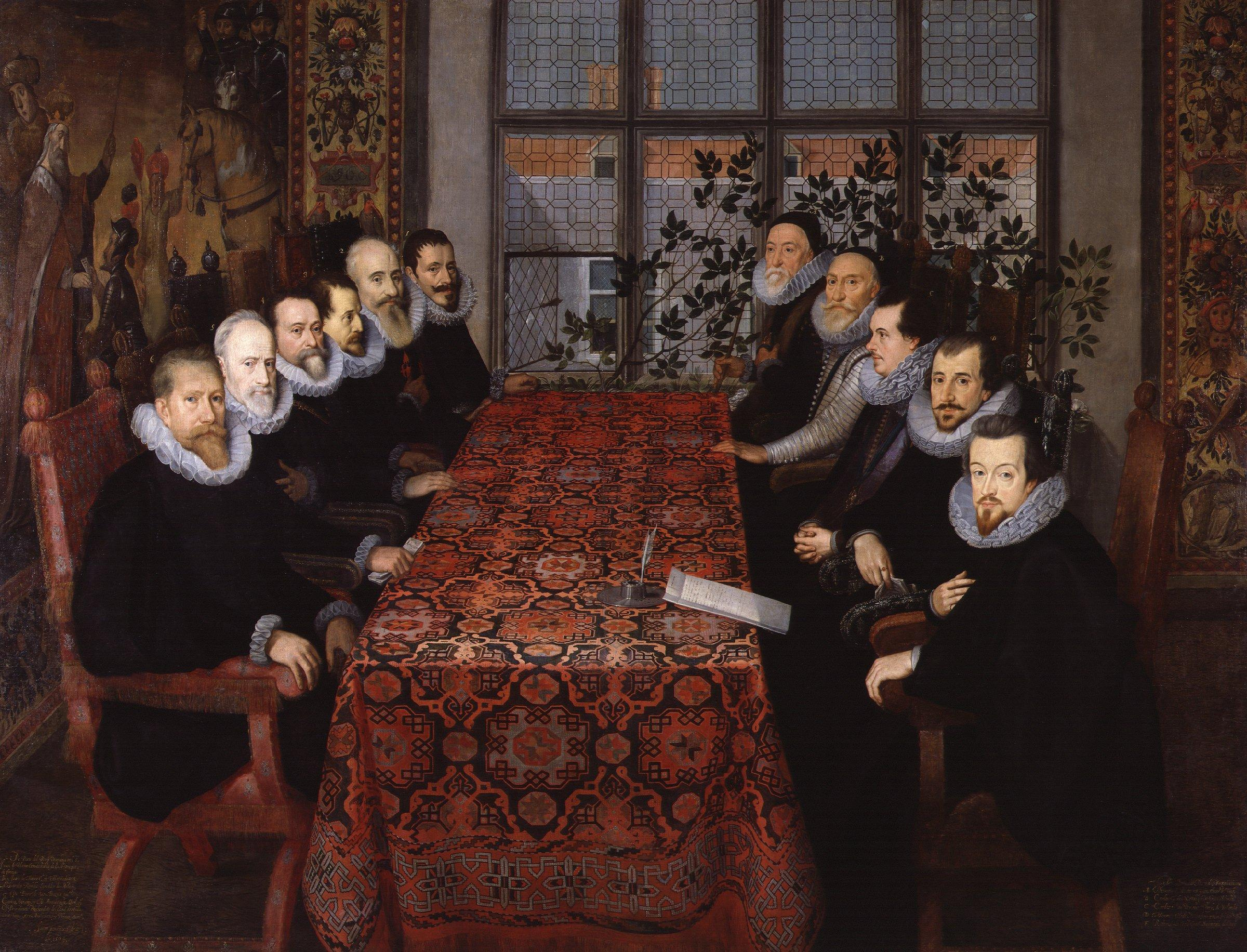 The Somerset House Conference, 1604, by unknown artist. All images in this batch are listed as "unknown author" by the NPG, who is diligent in researching authors, and was donated to the NPG before 1939 according to their website. Annotations with identifications of sitters after Description of (?) contemporary copy at the National Maritime Museum, London.